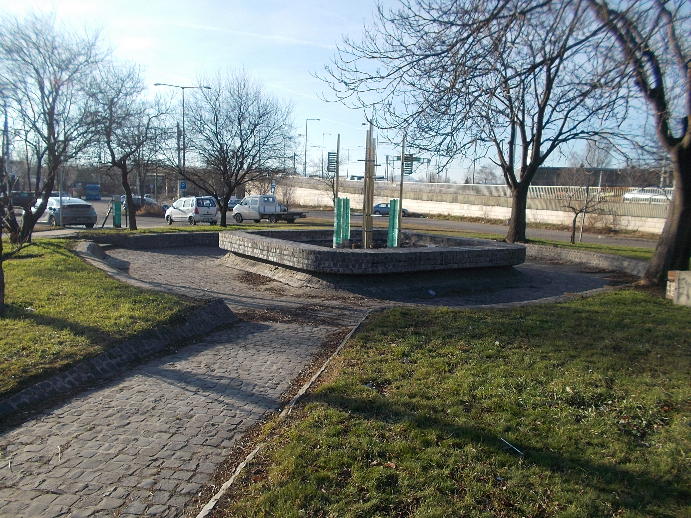 Nonfigurative fountain by Zoltán Bohus, Béla Hámori (1979 works, the pool of the fountan built cobblestone, middle of the pool is an abstract green glass and steel, five meters high, illuminated). A long cylinder stand in the middle it is creates a regular glass-like shape from the water, four concave plates and four tubes create four convex watersurfaces...Saddly it did not work. - Located in a small Park at Horvát Boldizsár street, Herminamező neighbourhood, Budapest District XIV.